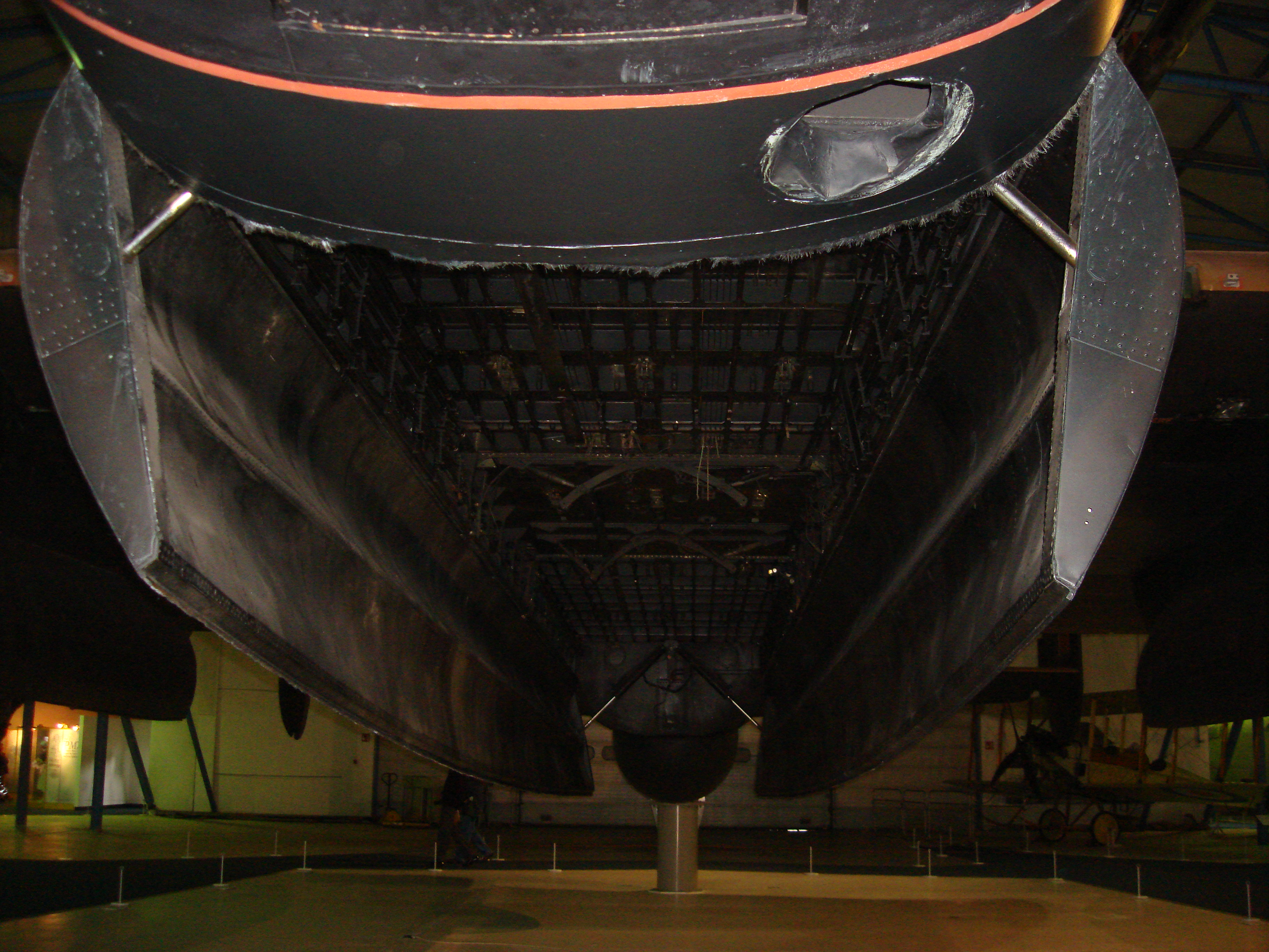 Bomb bay of an Avro Lancaster at the RAF Museum in London.